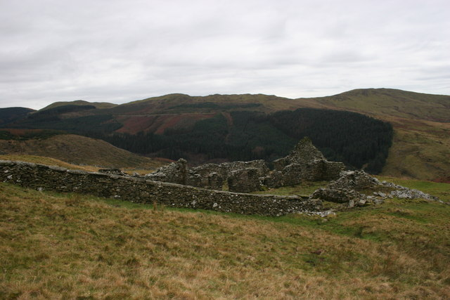 Ruined enclosure A once substantial building high above Cwm Einion.